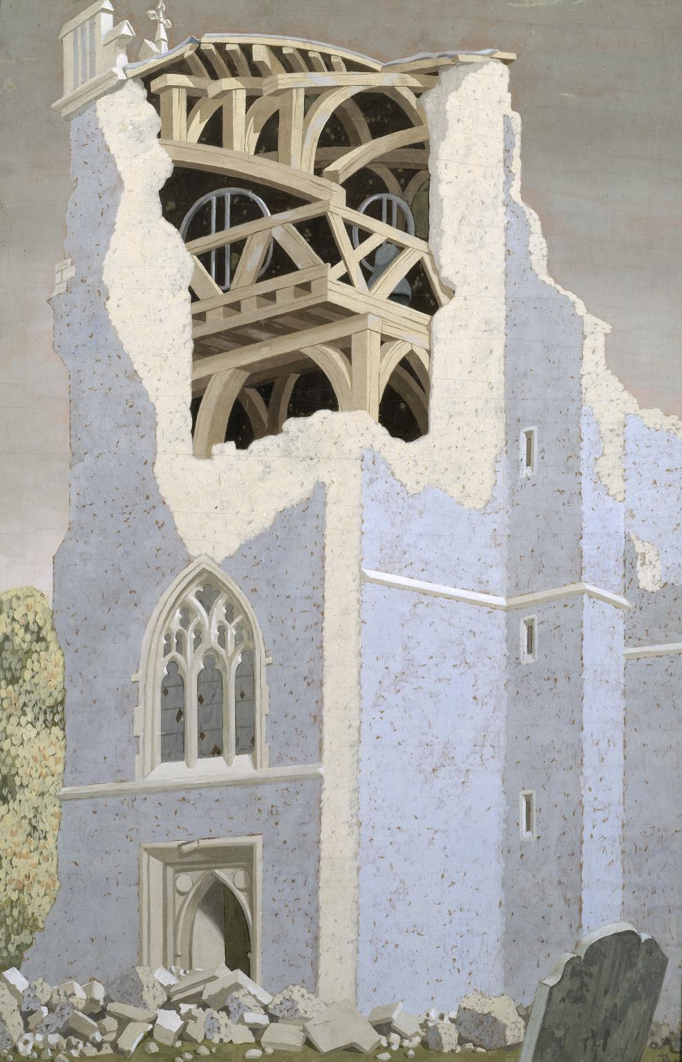 Coggeshall Church, Essex 1940 John Armstrong 1893-1973 Presented by the War Artists Advisory Committee 1946